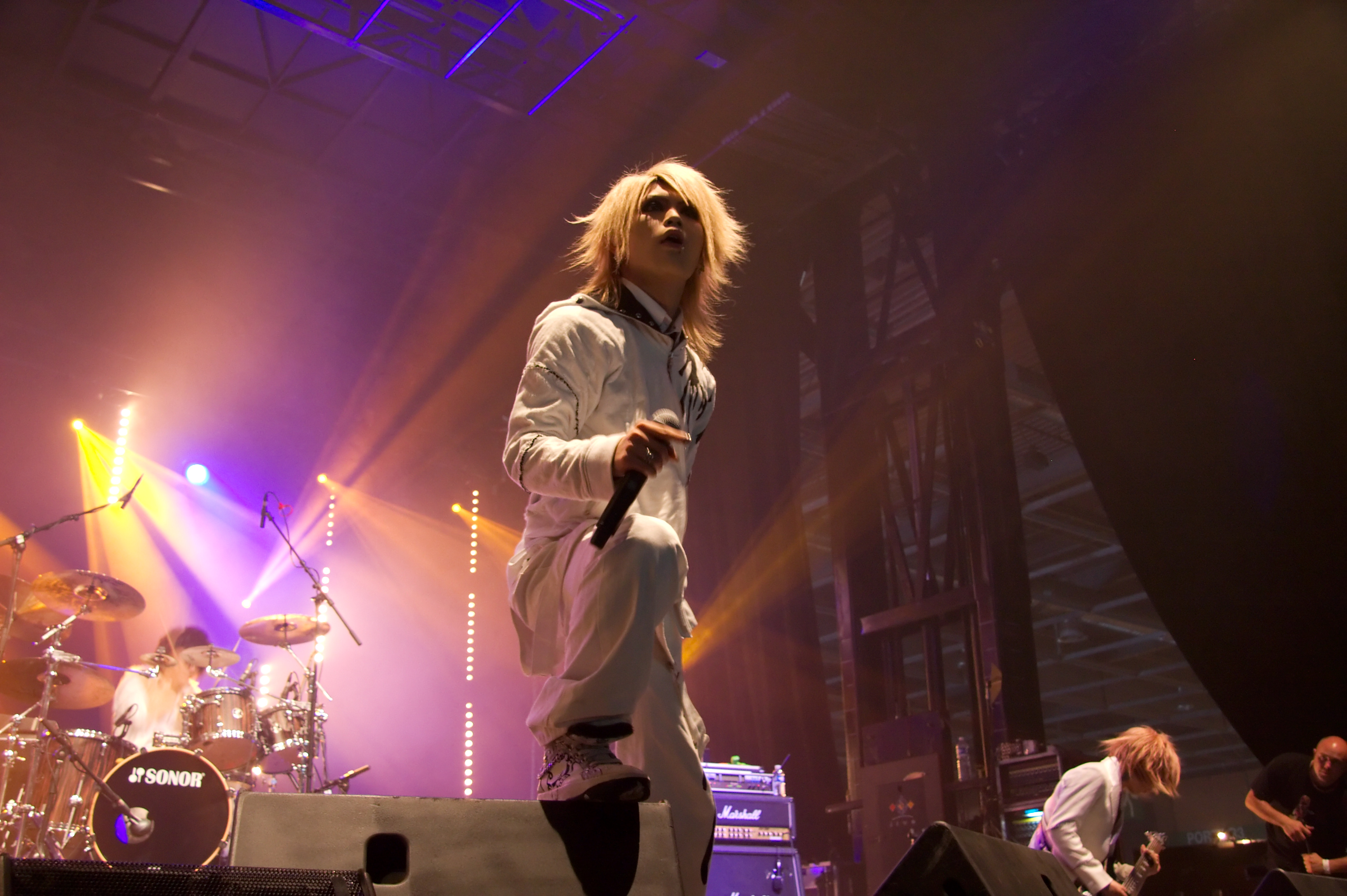 Vistlip live at Japan Expo 2009 (Paris, France).